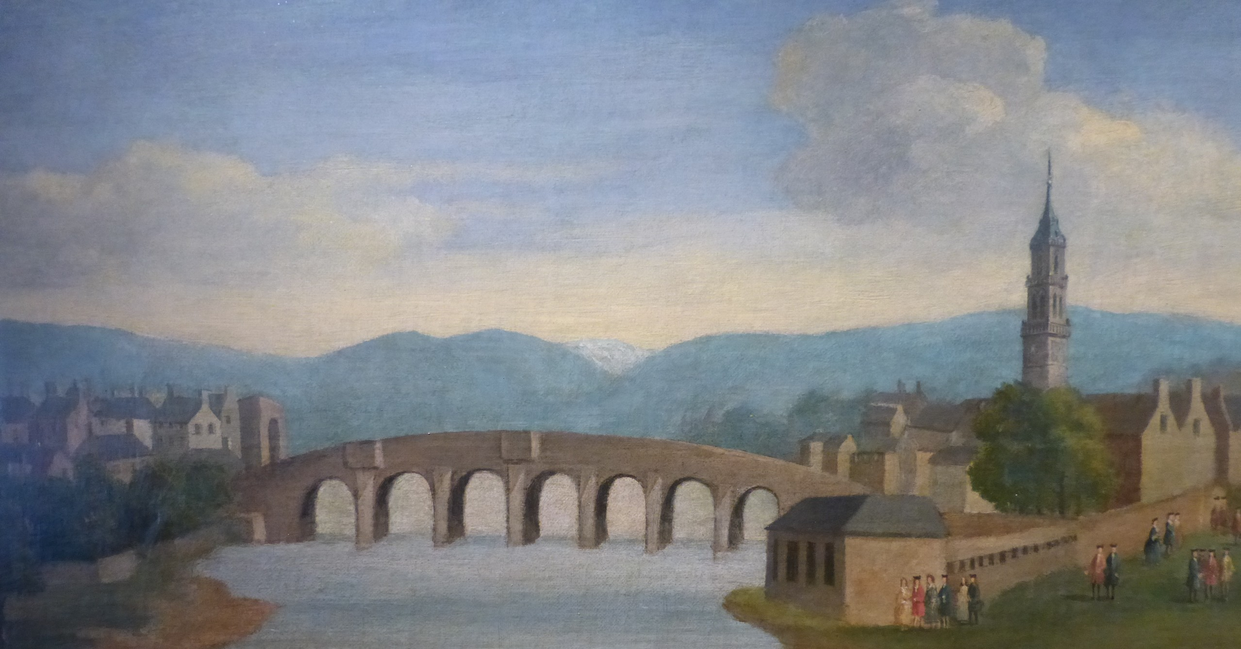 Detail from the painting 'Glasgow Green, c.1758', which shows a battalion of the Black Watch being reviewed before being sent to fight in North America. The spire is that of the Merchants' Hall.